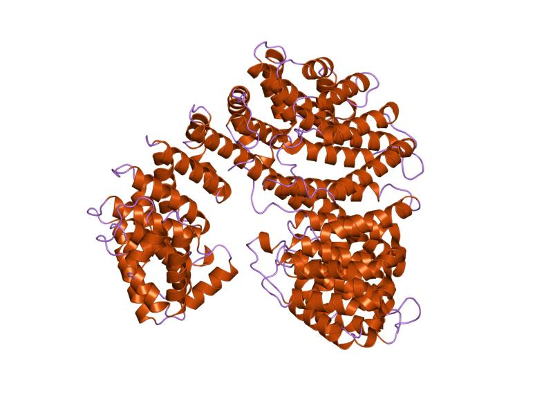 Cartoon representation of the molecular structure of protein registered with 1qgk code.